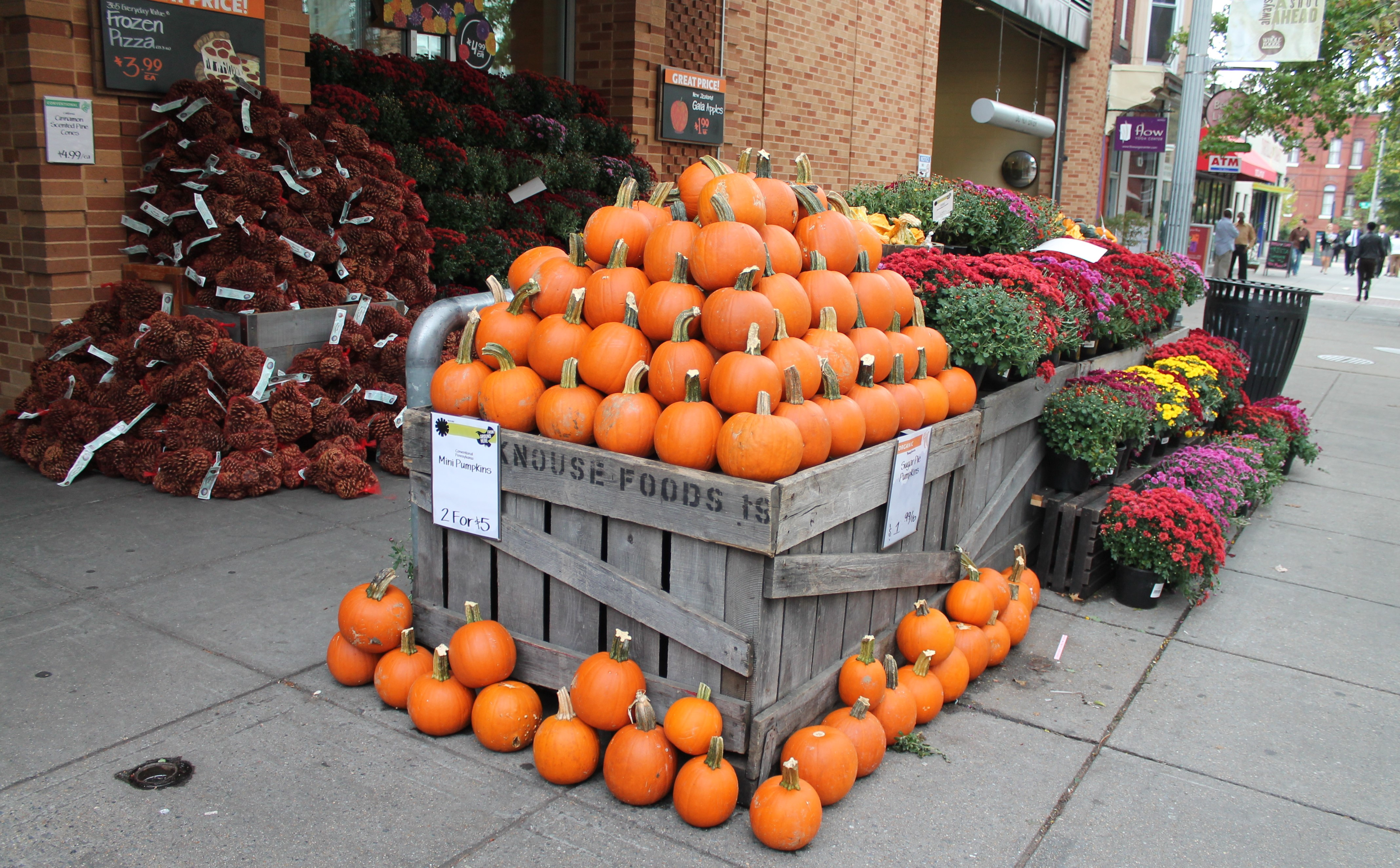 LOGAN CIRCLE NEIGHBORHOOD: Pumpkins, Gourds and Squash Display at WHOLE FOODS MARKET at 1440 P Street, NW, Washington DC on Tuesday afternoon, 14 Octobe 2014 by Elvert Barnes Photography AUTUMNAL CHANGES Series PUMPKINS AND SQUASH from WEGMEYER FARMS / Hamilton VA Follow WHOLE FOODS MARKET / P STREET at